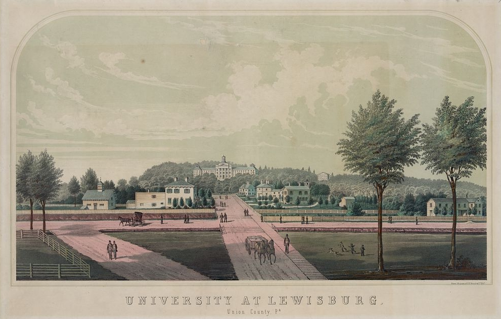 View of main buildings of Bucknell University, Lewisburg, Pennsylvania